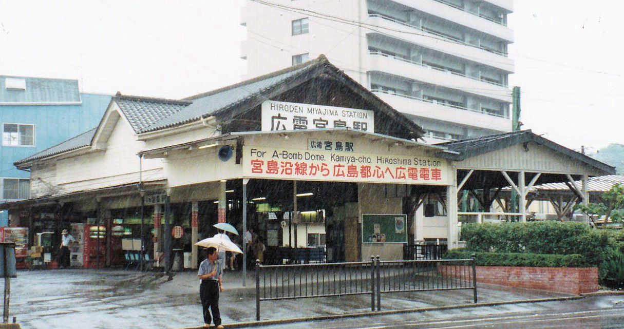 Hiroden-Miyajima Station (now Hiroden-Miyajimaguchi Station)